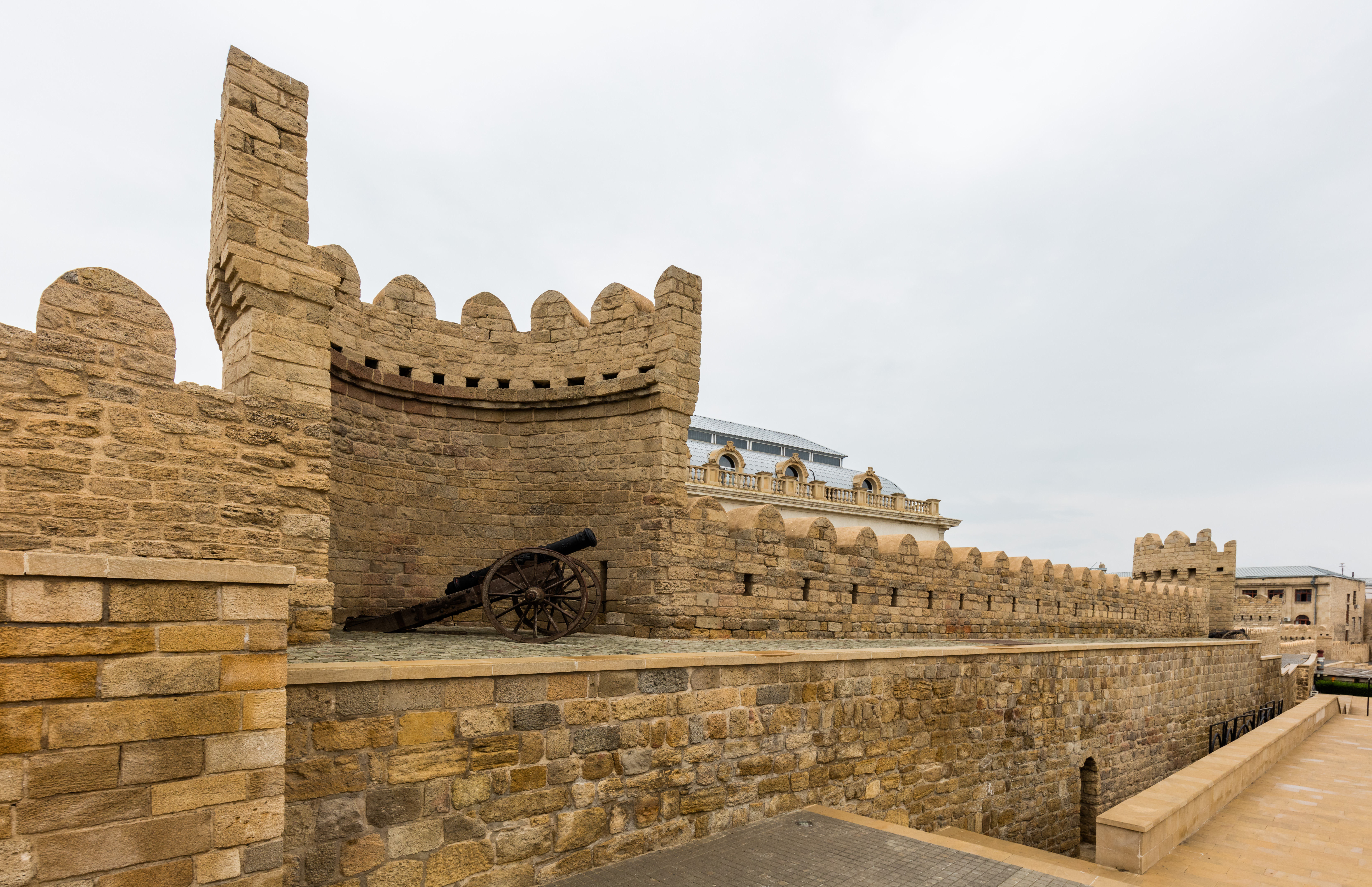 Old city of Baku, Azerbaijan